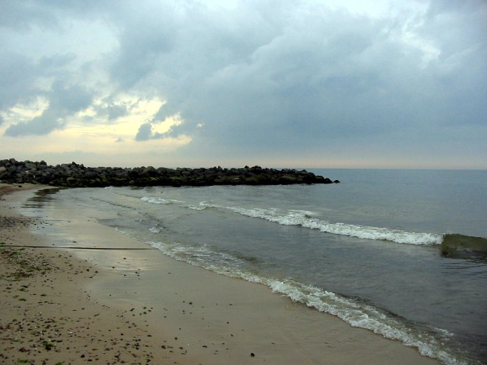 North Sea, Lønstrup, Denmark // groyne